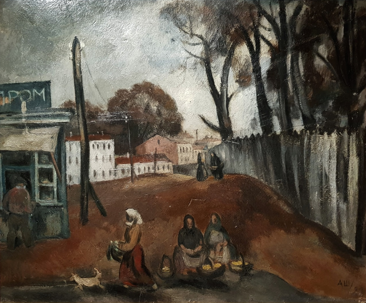 Alexander Shevchenko. Moscow outskirts. 1929. Nukus Museum of Art